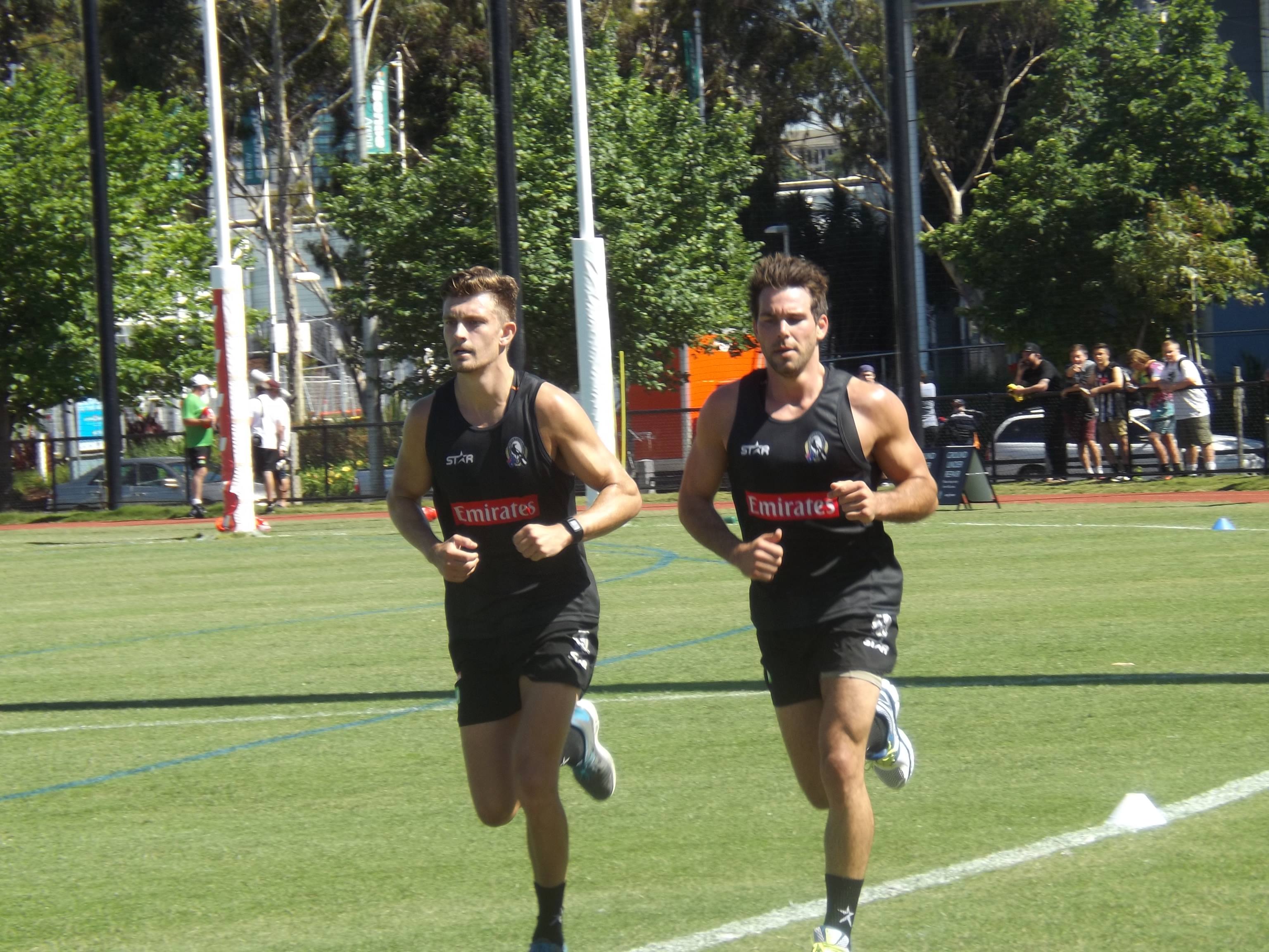 Adam Oxley and Levi Greenwood with Collingwood during an open training session at Olympic Park, Melbourne.